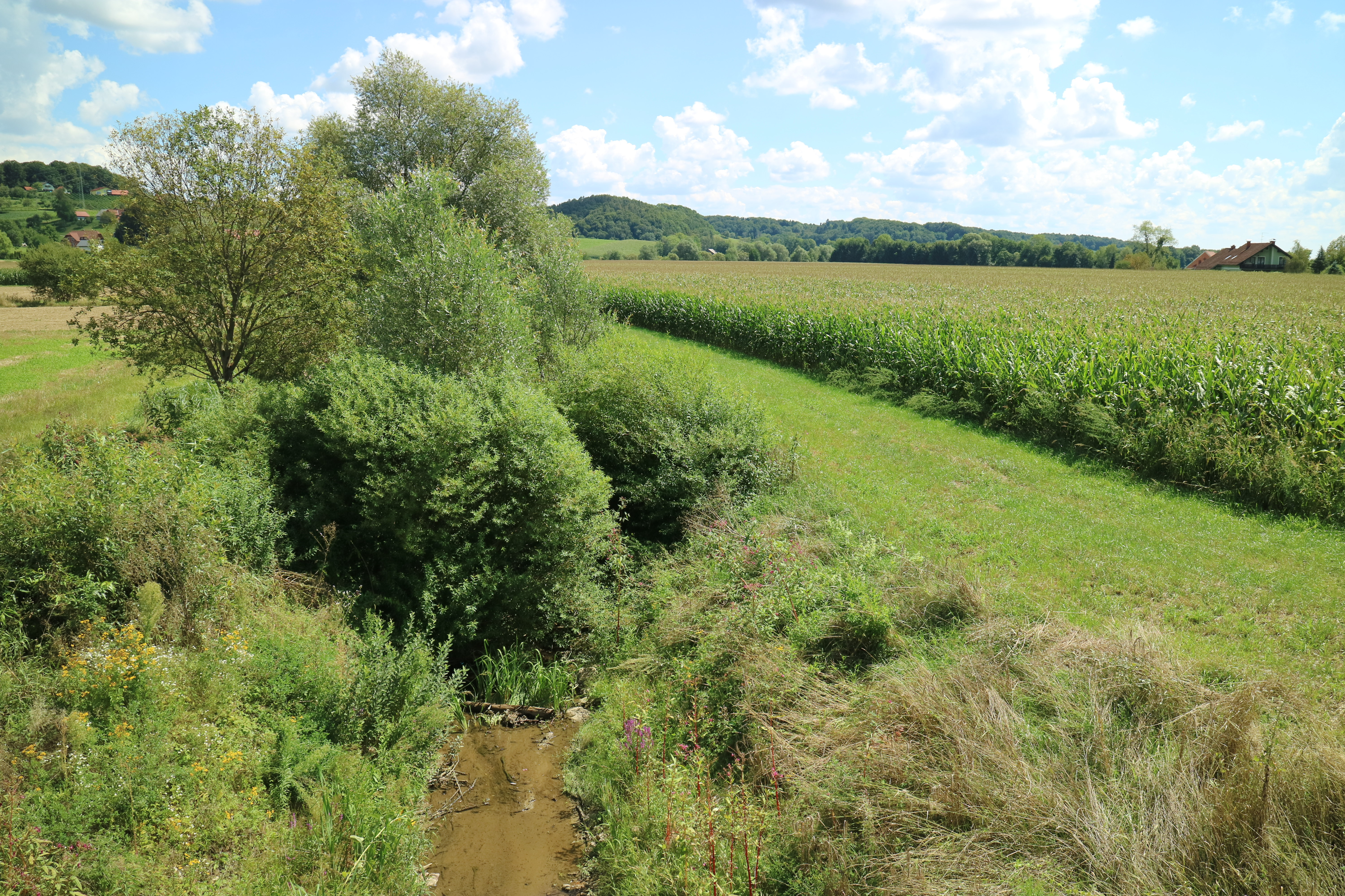 Ščavnica in Spodnja Ščavnica, Slovenia, view downriver